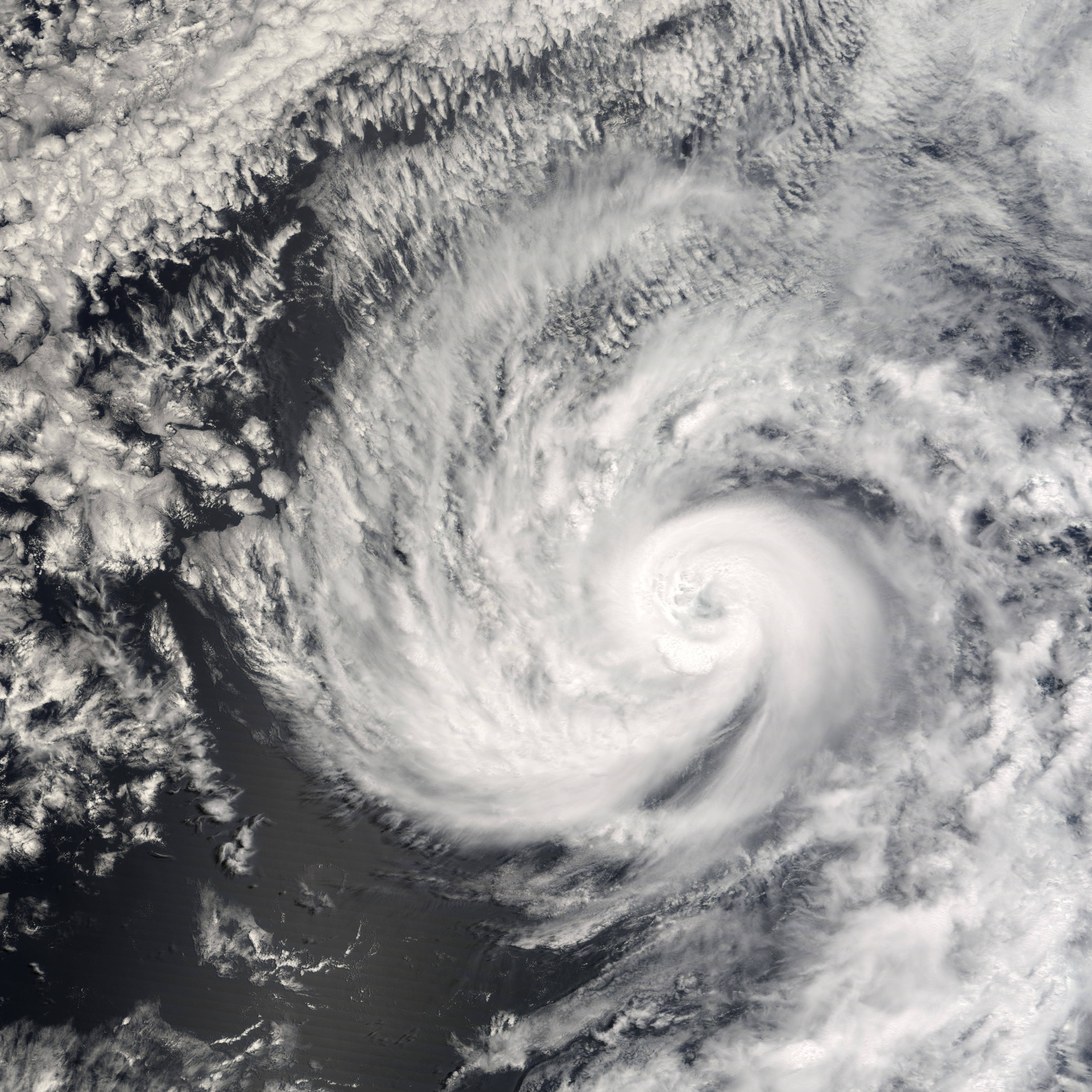 Hurricane Cosme was the third named storm in the 2007 Eastern Pacific hurricane season. Cosme formed in a common area for hurricanes to start—off the Pacific coast of Mexico—and it tracked north and west. Cosme built power from its initial Tropical Depression state on July 14 to a minimal Category 1 hurricane on July 16. At 10:45 a.m. local time (19:45 UTC) on July 16, 2007, when the Moderate Resolution Imaging Spectroradiometer (MODIS) on NASA’s Terra satellite captured this image, Hurricane Cosme was at its brief peak as a Category 1 storm. The hurricane had a well-defined spiral shape, but it was relatively small and its central eye was filled with clouds (known as a “closed eye”). Sustained winds were measured at 120 kilometers per hour (75 miles per hour) according to the University of Hawaii’s Tropical Storm Information Center, at the time of this MODIS image. Conditions for Hurricane Cosme to intensify were poor, and by July 17, it had downgraded back to tropical storm status. The storm was projected to continue on a mostly westward track toward Hawaii, according to the Joint Typhoon Warning Center on July 17, 2007. The forecast at that time called for Cosme to brush the Big Island of Hawaii on July 22 as a tropical storm.